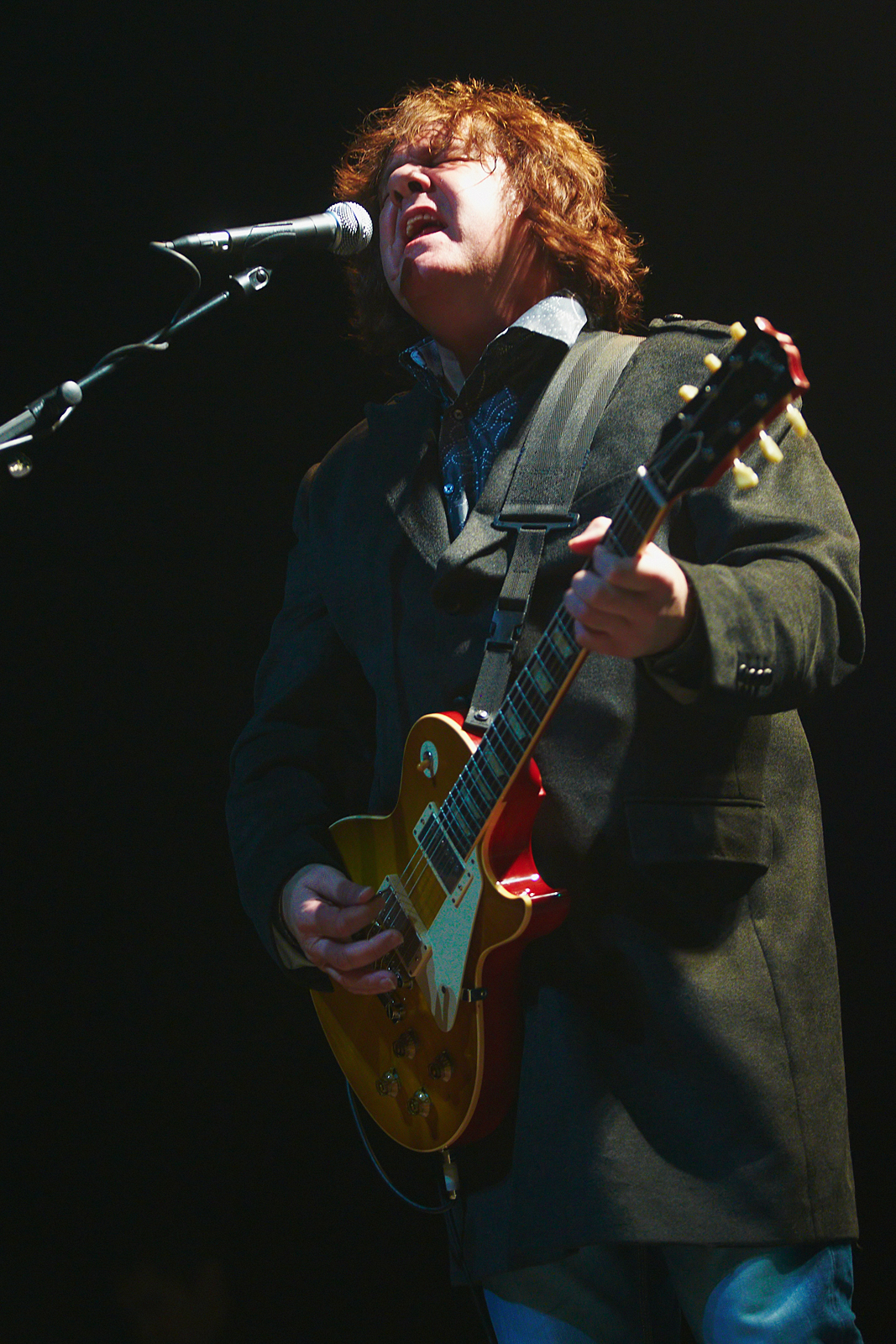 Gary Moore from concert tour in 2010